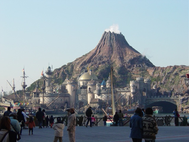 and Fortress